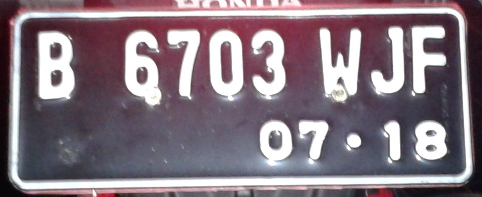 B identifies the vehicle is from Jakarta city, 6703 WJF are random numbers and letters from the police, and 07.18 identifies the expiry date of the plate which is July 2018